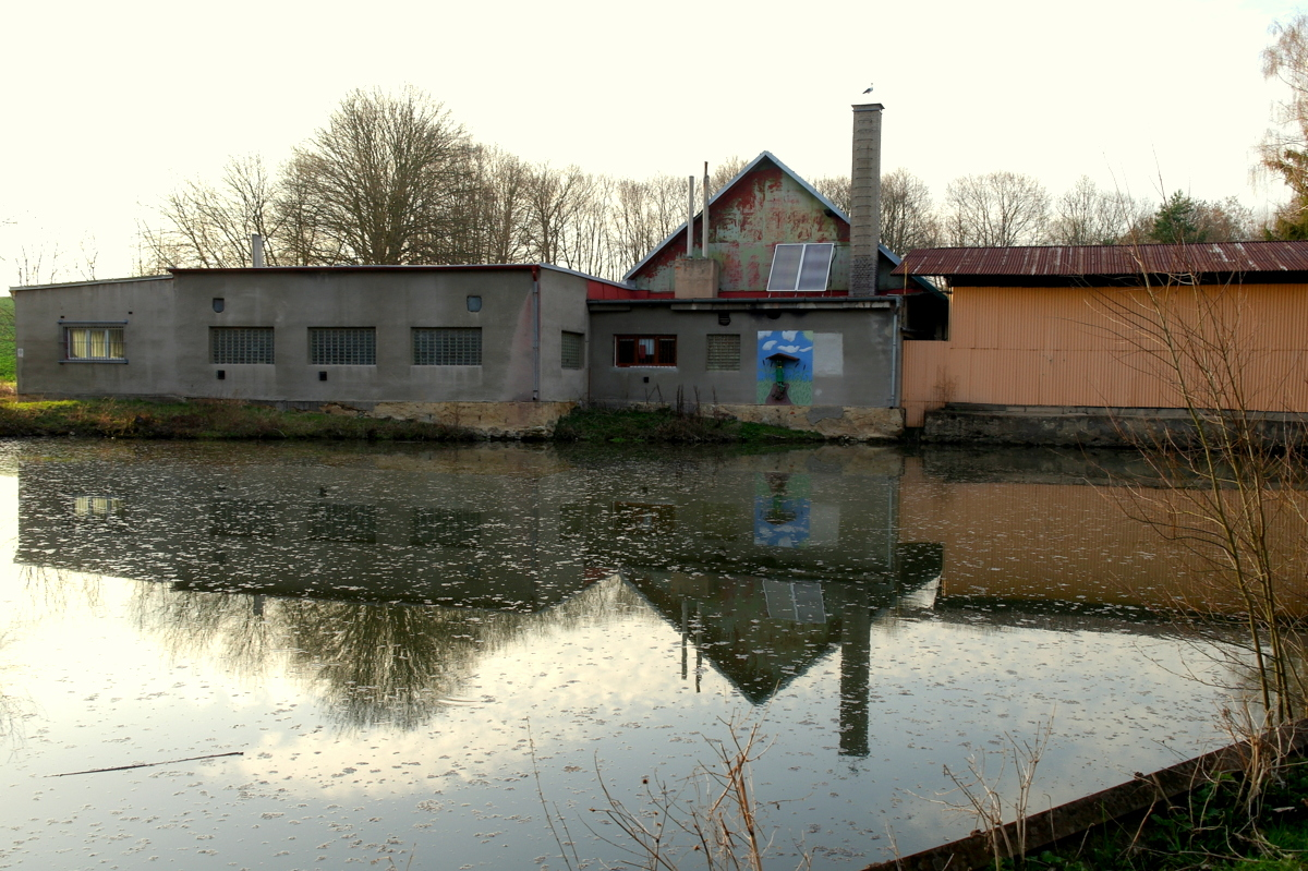 Workshops of Integrated Secondary School, locality of Lidice u Otrub, Otruby (Slaný), Kladno District